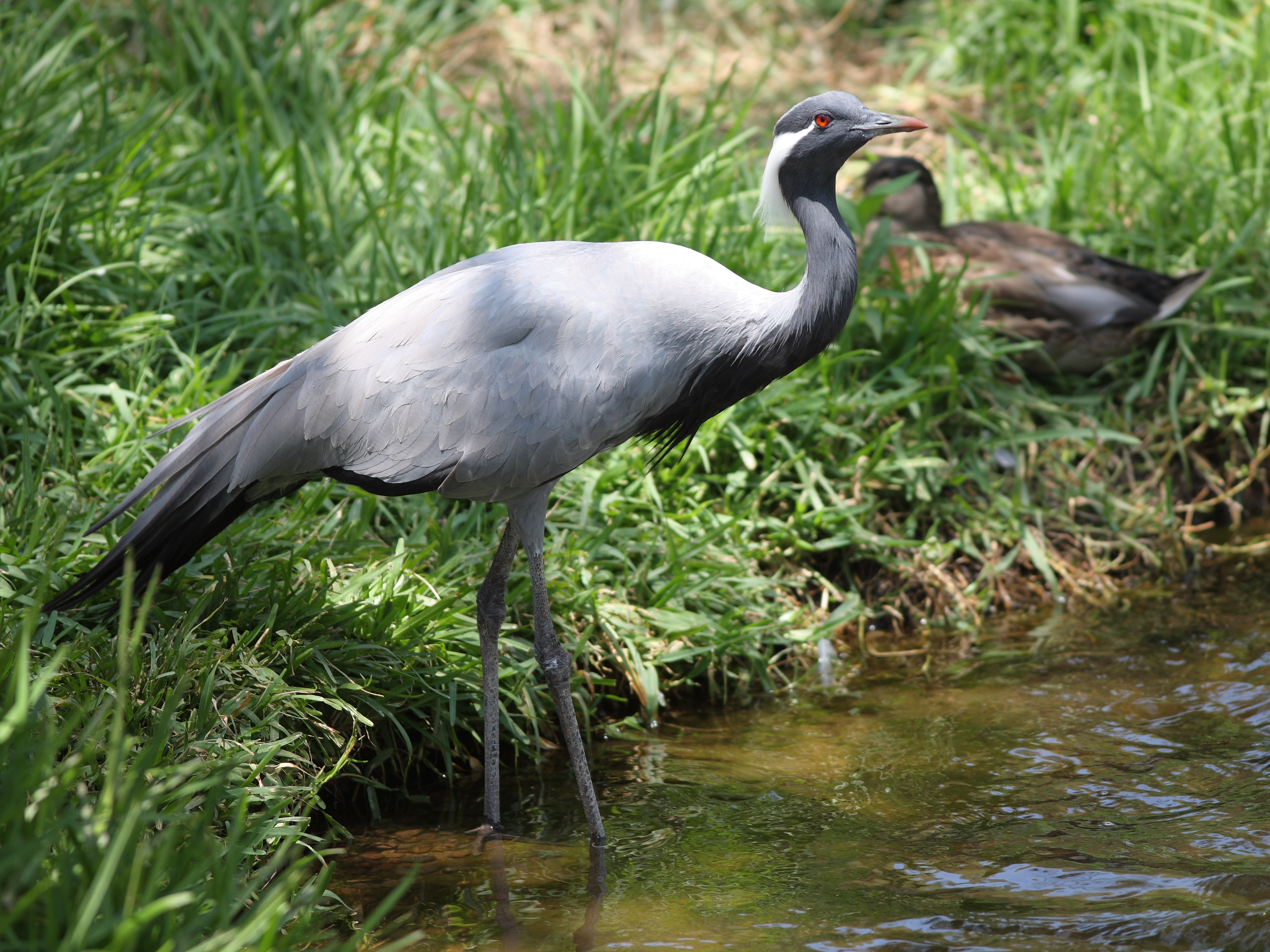 A Demoiselle crane Anthropoides virgo